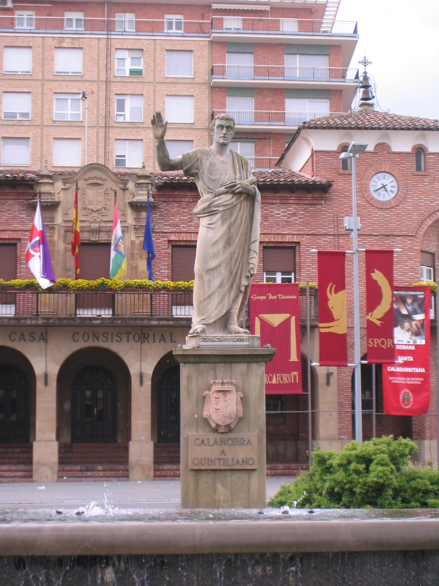 Quintilian's monument in Calahorra, La Rioja, Spain.